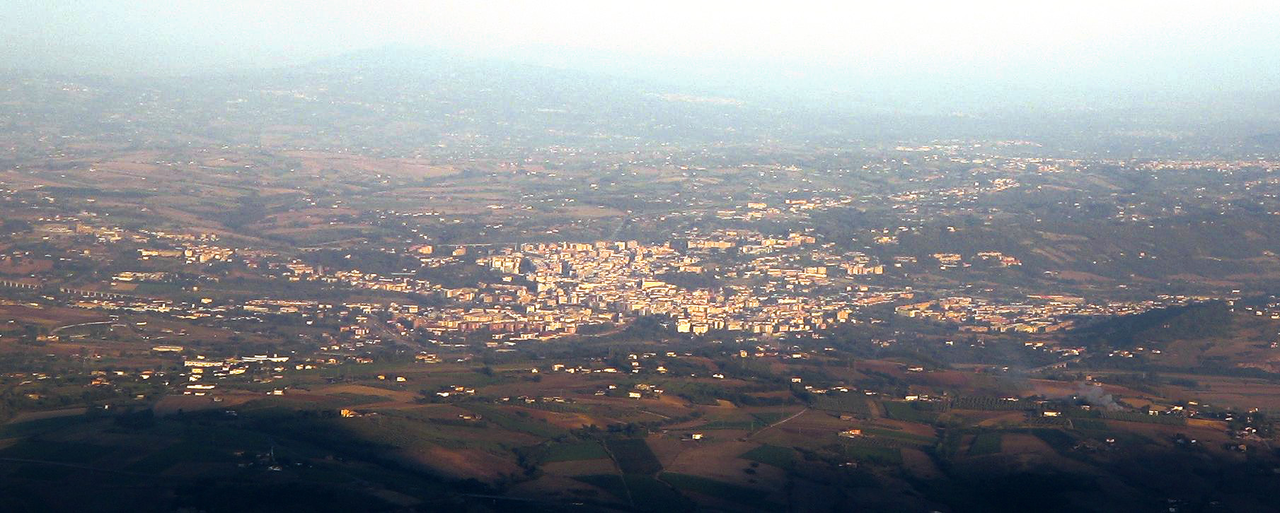 Panoramic view of Benevento from the mount Pentime (1,168 amsl), part of the Taburnus mountain range.